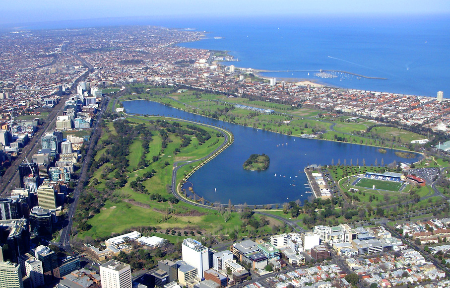 Aerial shot of Albert Park, Victoria, Australia.